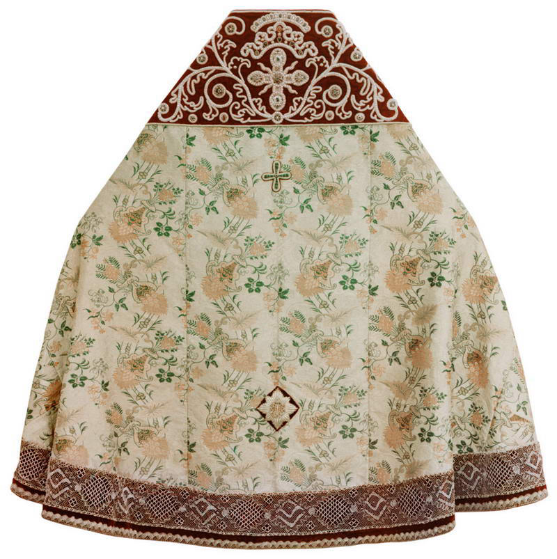 Phelonion